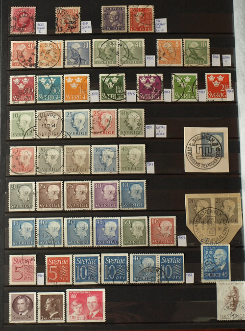 stamp collection, swedish stamps